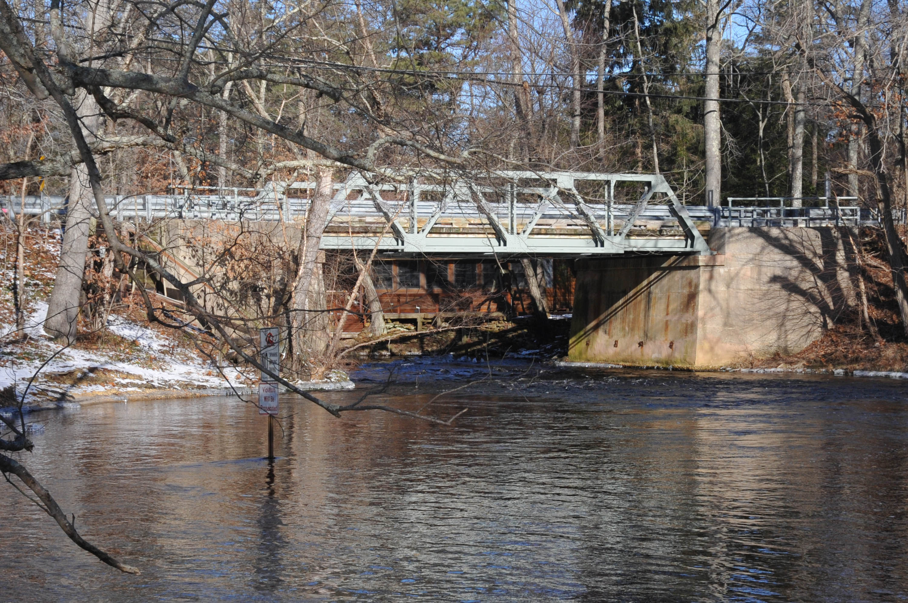 BUILT 1920; WARREN PONY-TRUSS BRIDGE. THIS BRIDGE WAS BADLY DAMAGED BY HURRICANE IRENE. THE BRIDGE WAS REPAIRED AND NOT REPLACED. IT LIES DIRECTLY ADJACENT TO WEYMOUTH FURNACE PARK. THE PARK AND THE BRIDGE ARE ALONG THE GREAT EGG HARBOR RIVER